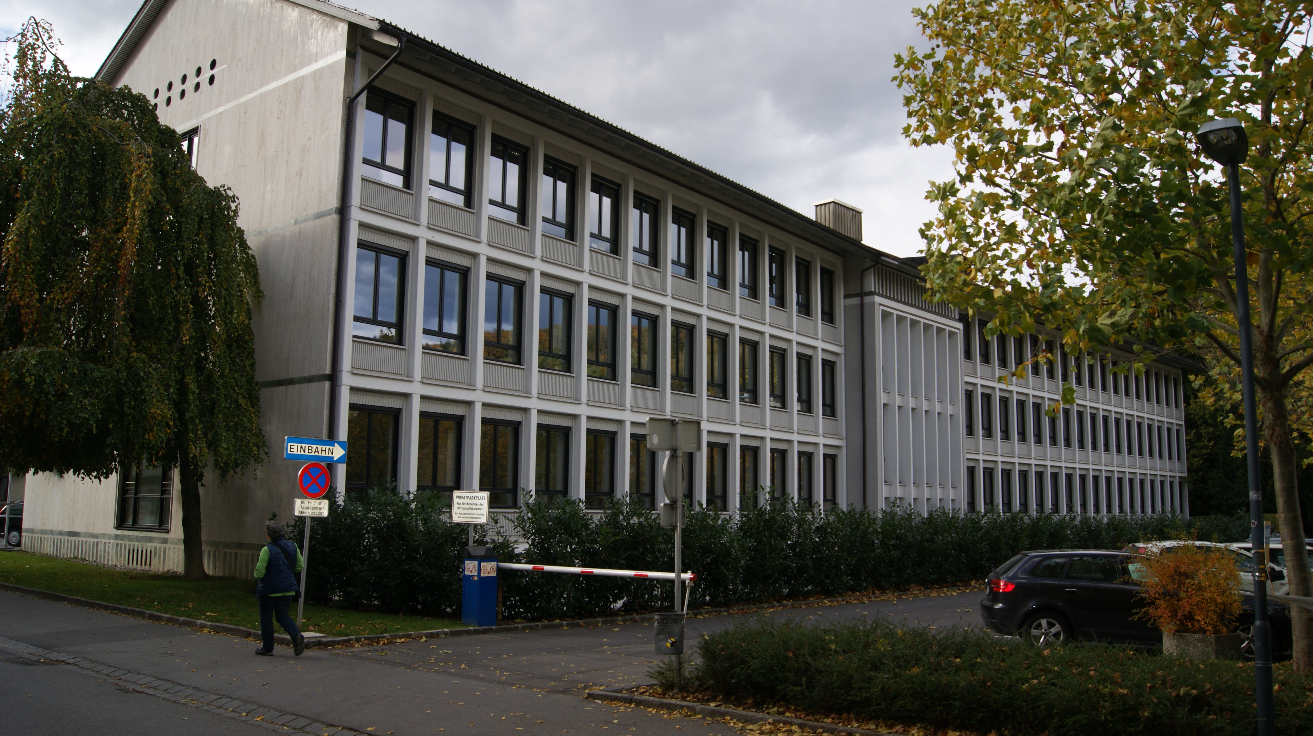 Building of the Vorarlberg Chamber of Commerce in the Wichnerstrasse 6 in 6800 Feldkirch, Vorarlberg, Austria.